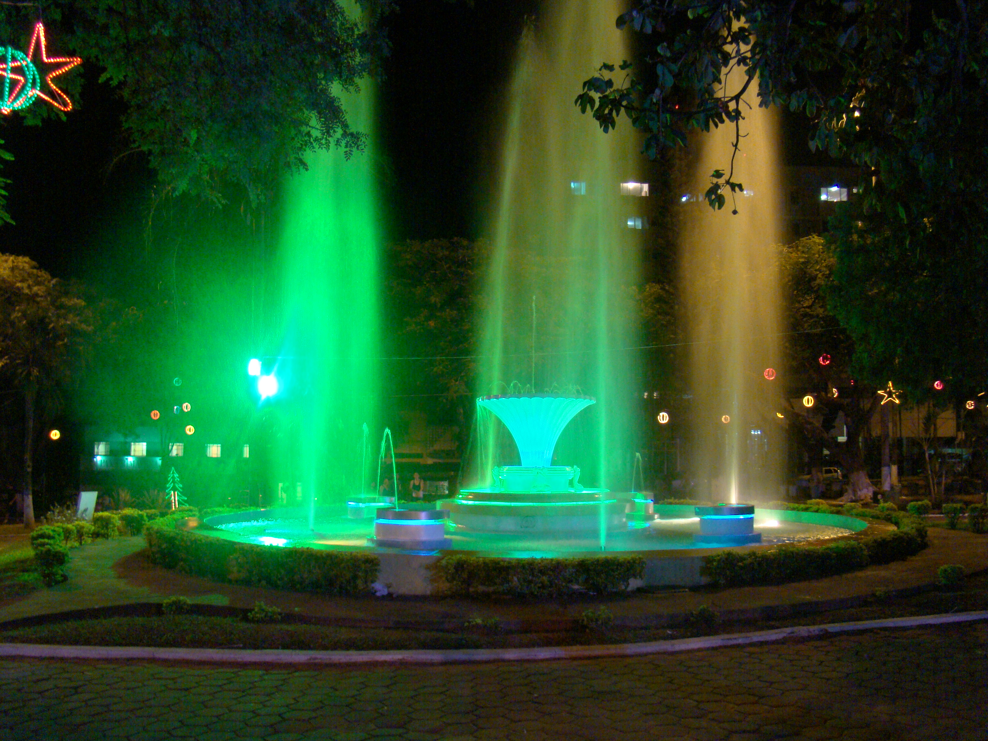 Light source Piazza Luigi de Paoli in Goioerê.